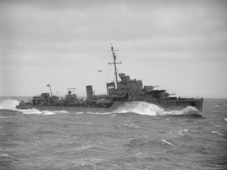 IWM caption : HMS INTREPID, one of the destroyers acting as a screen when the Home Fleet sailed north to cover a convoy to Russia